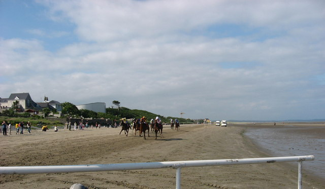 Laytown Strand Races Laytown Strand Races are run under the Rules of Racing and take place annually. This is the 3.45 race, the O'Neill Sports Handicap, won by Miracle Ridge ridden by D. P. McDonagh.